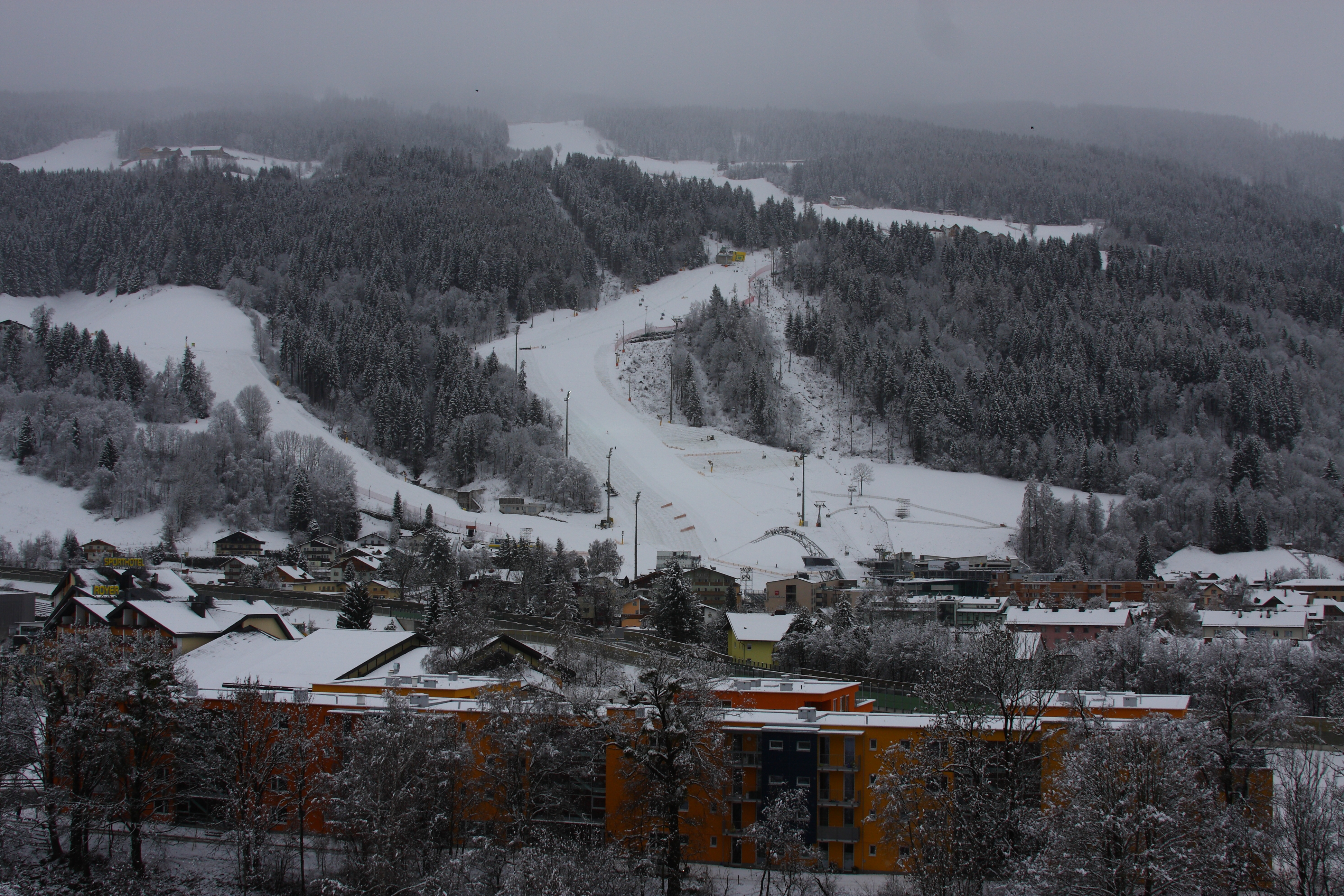 slope of the 2014 world cup slalom ( "the night race") in schladming, austria